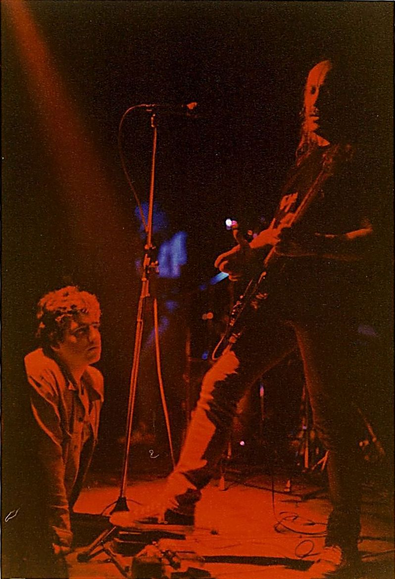 Tony McPhee plays lead guitar for The Groundhogs at The Sir George Robey, N London, September 1991, closely observed by a fan Summary Tony McPhee plays lead guitar for The Groundhogs at The Sir George Robey, N London, September 1991, closely observed by a fan